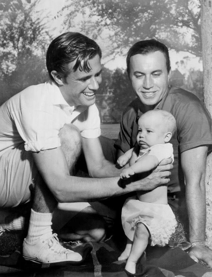 Photo of John Lupton and his baby daughter, Rollin, and Michael Ansara. Lupton played Tom Jeffords and Ansara, Cochise, in Broken Arrow.